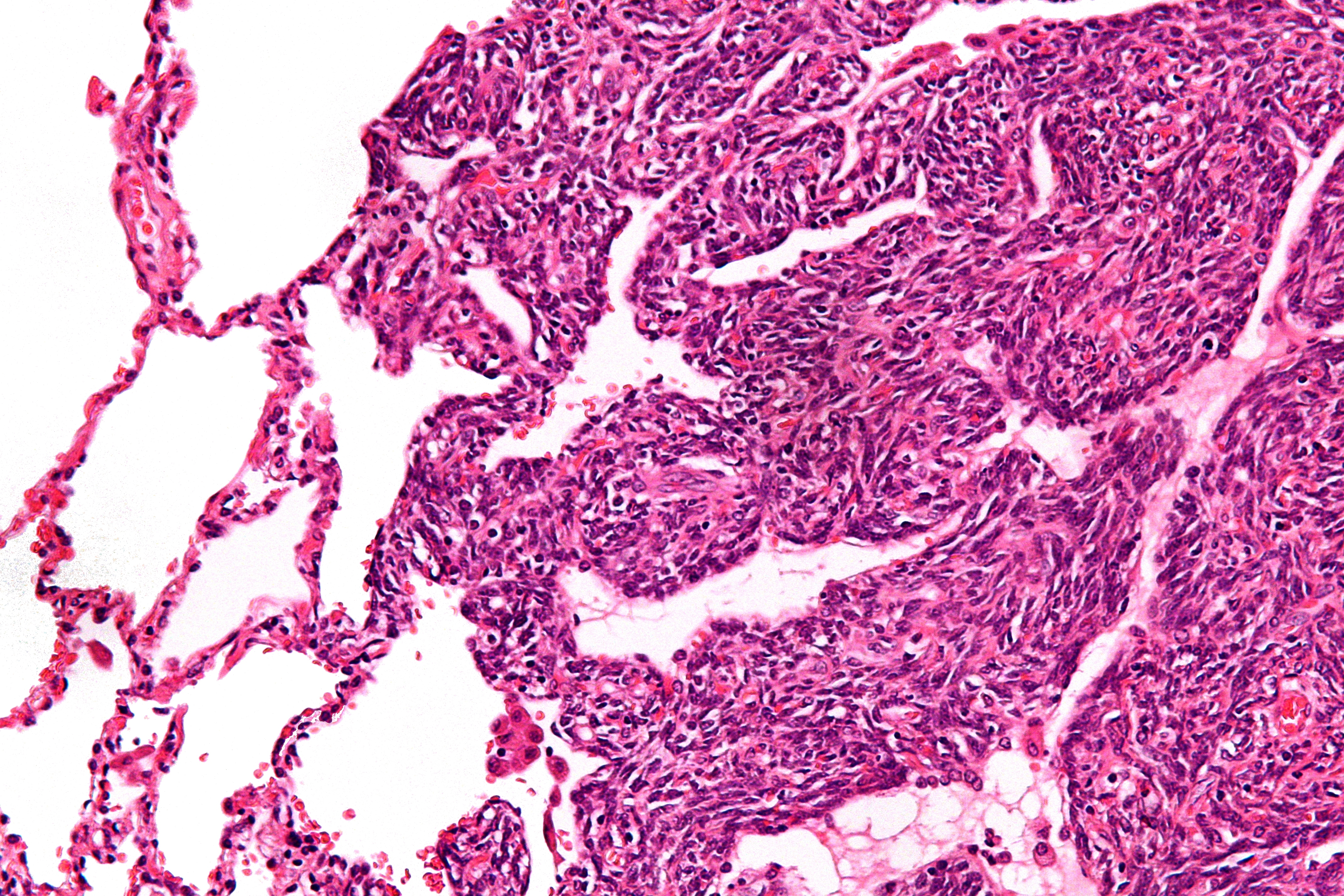 High magnification micrograph of a monophasic synovial sarcoma. Lung. H&E stain. The histologic features monophasic synovial sarcomas overlap with other entities that have a herring bone pattern (e.g. MPNST, fibrosarcoma). Related images Intermed. mag. High mag.